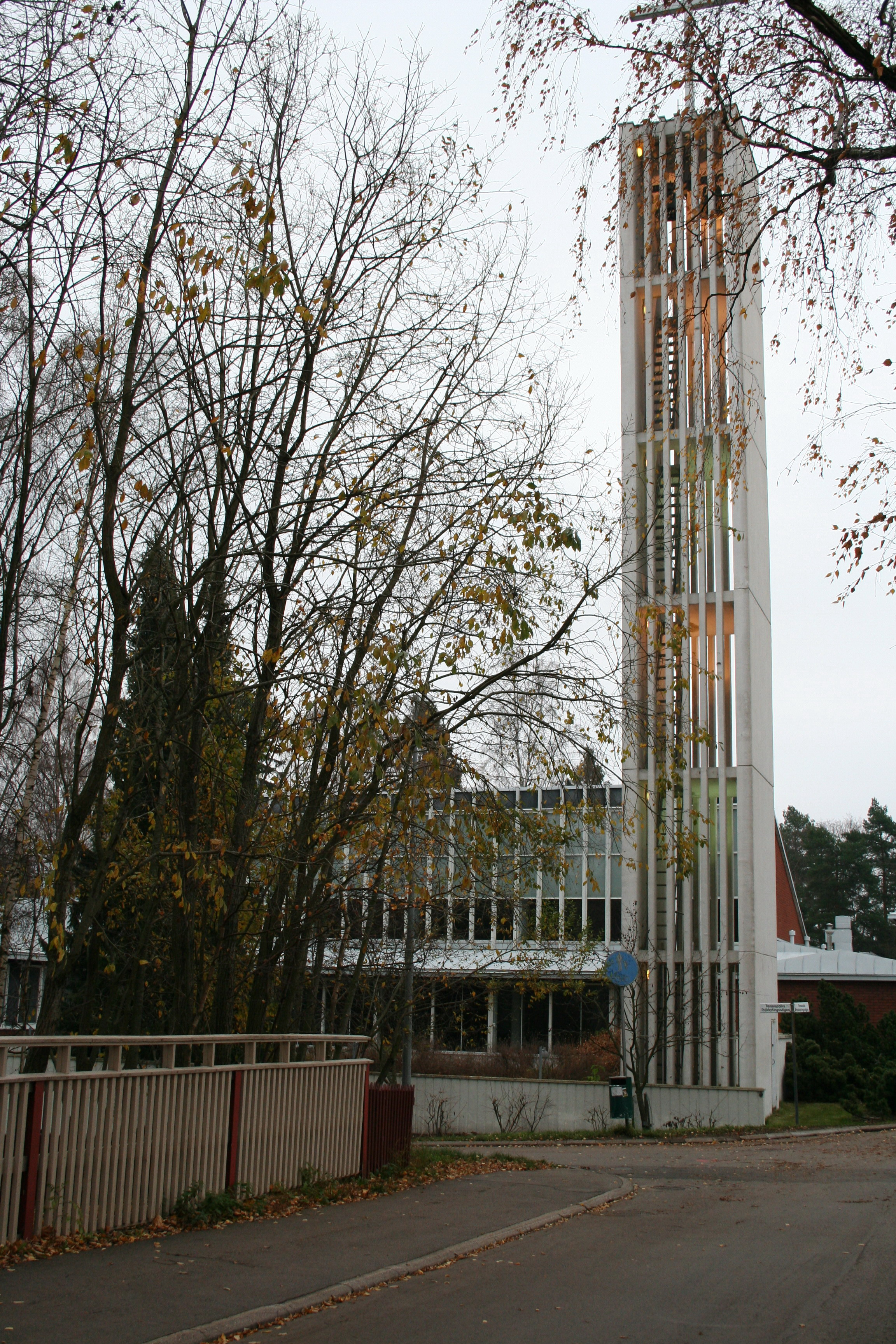 Puistola Church, bell tower, Puistola, Helsinki Finland. Completed 1960, architects Eija and Olli Saijonmaa.